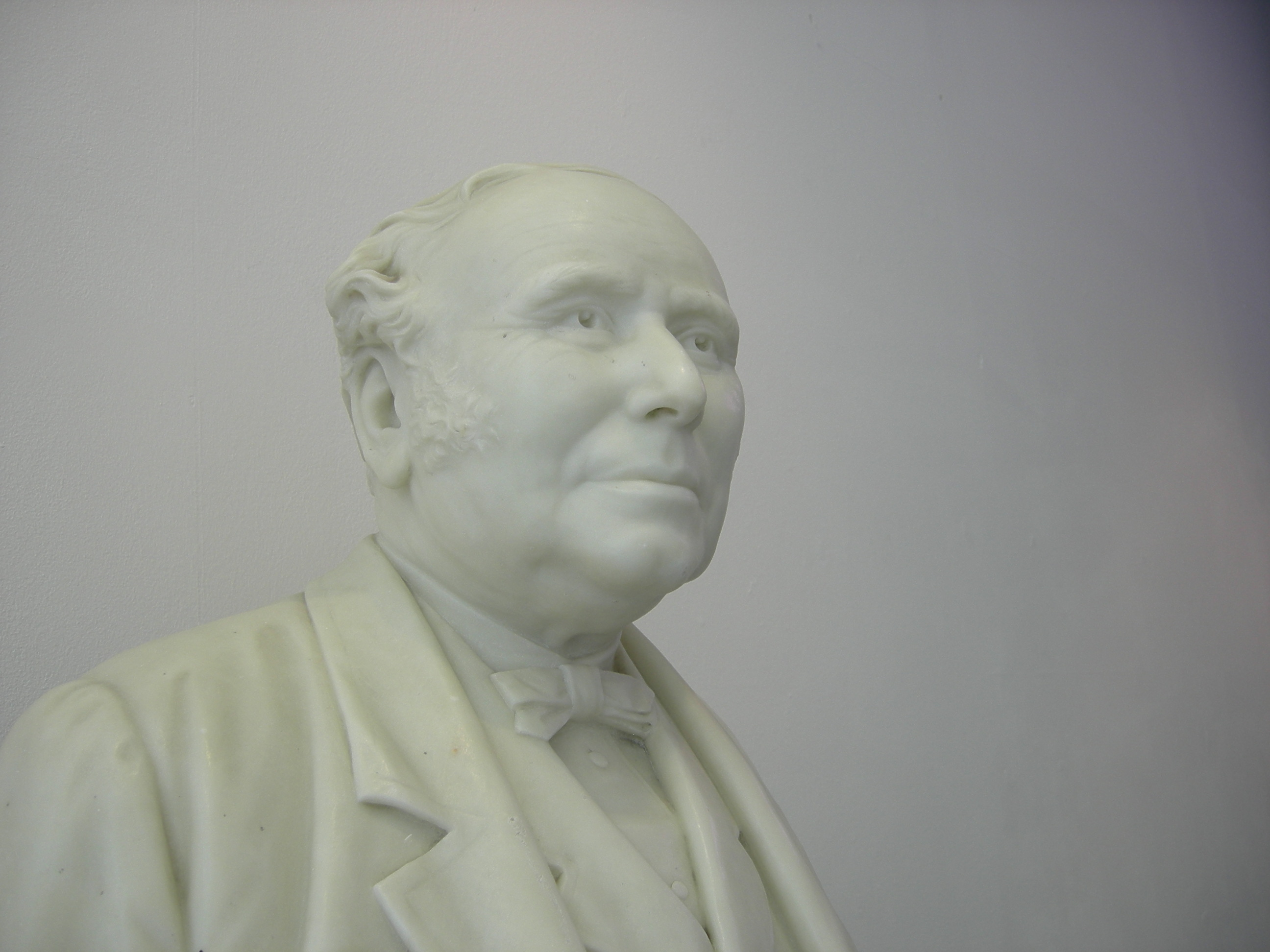 Author: Fraser Denholm Category:Aberdeen